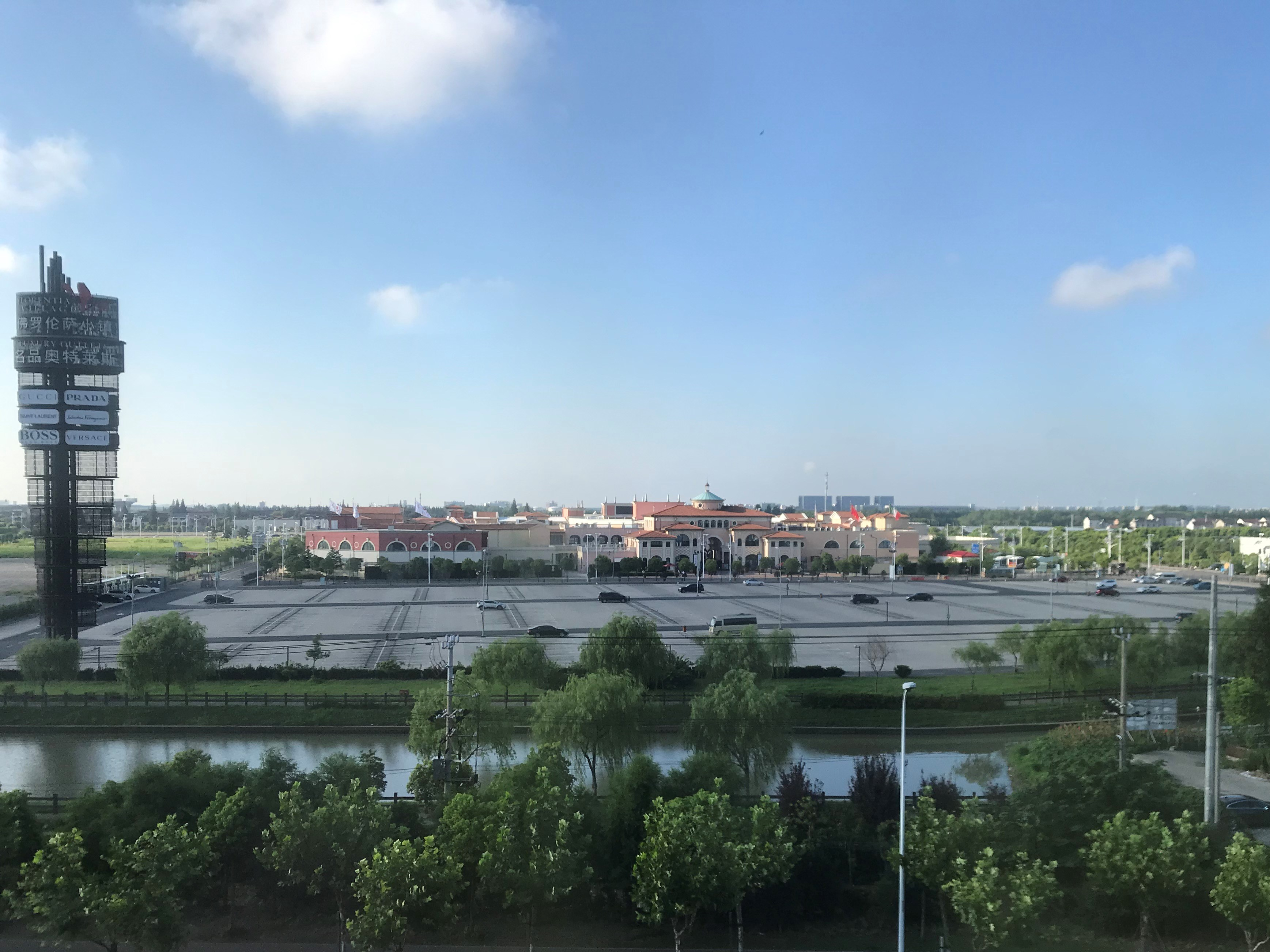 Taken on L2 train